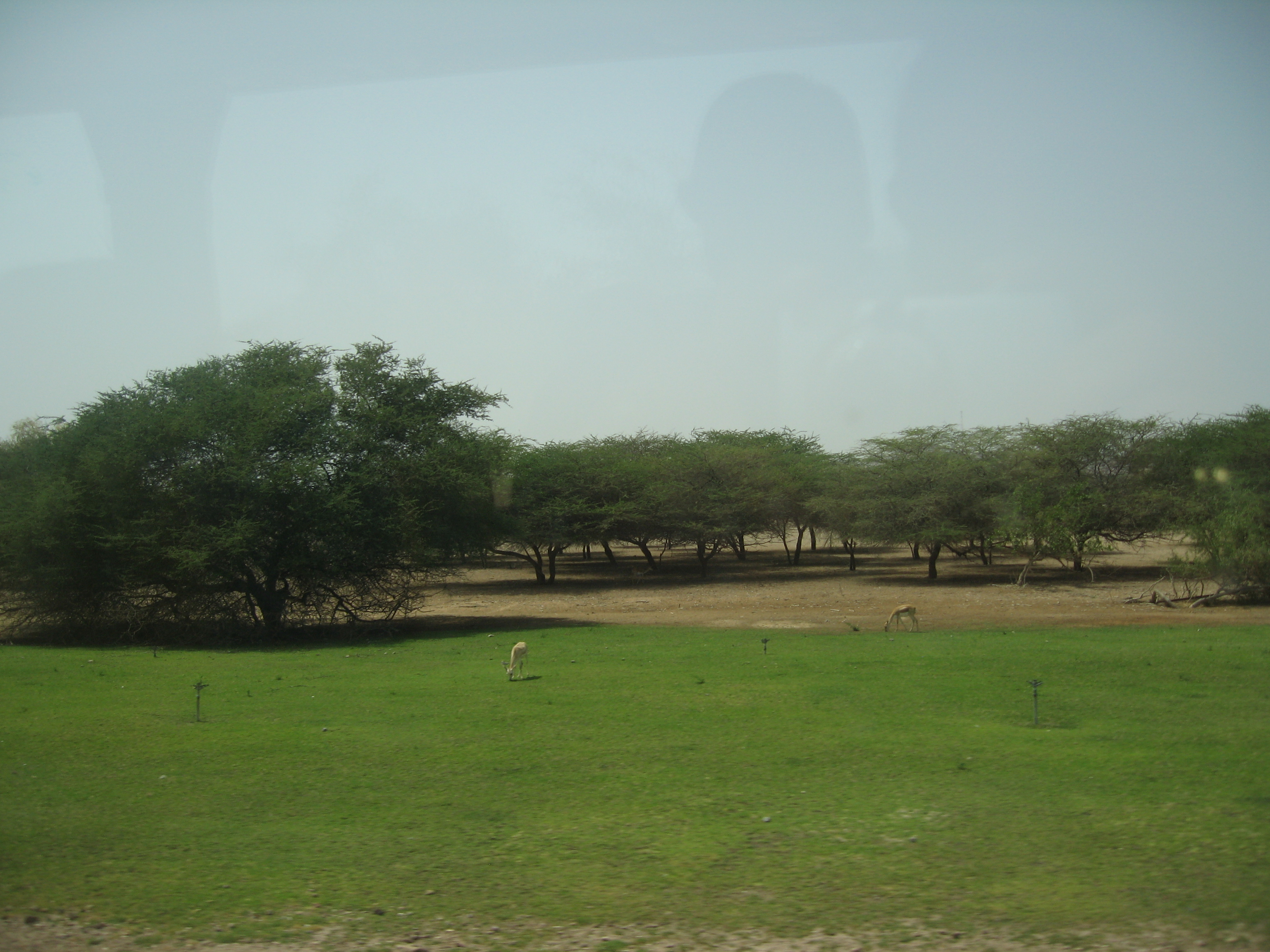 View over Sir Bani Yas island in UAE (may 2012)